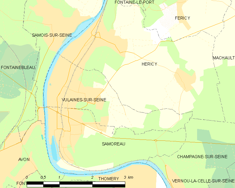 Map of French municipality Vulaines-sur-Seine